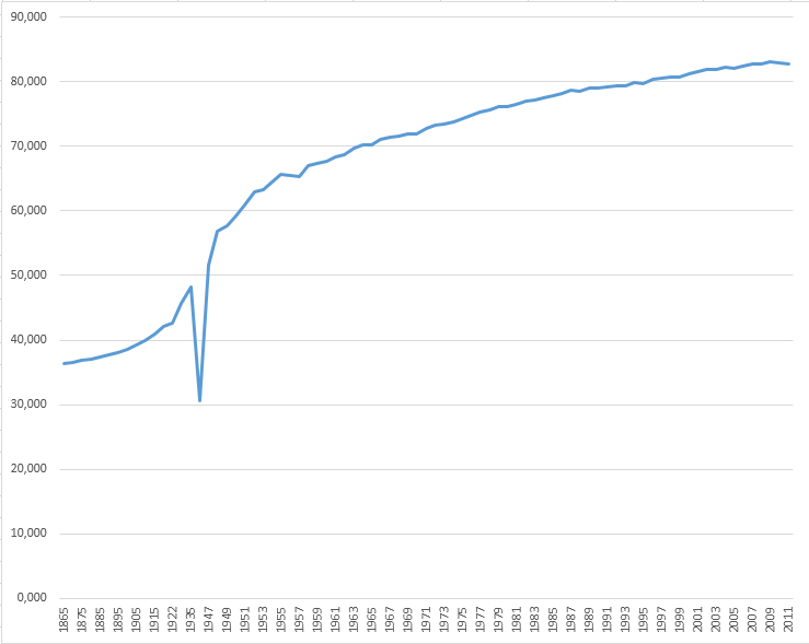 Evolution of life expectancy in Japan for the period 1865-2011.[1]